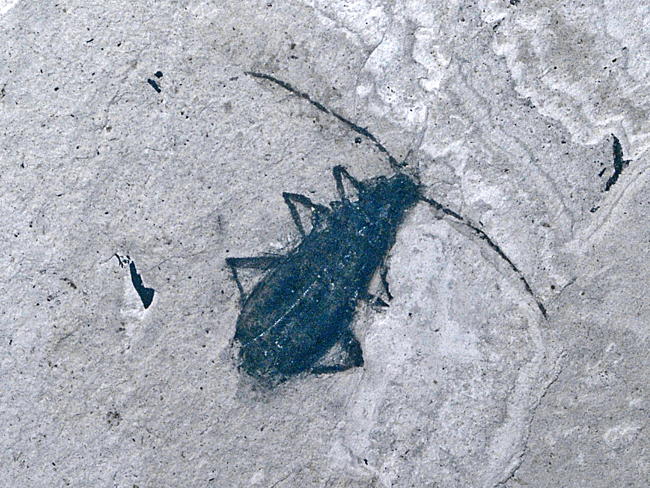 Fossil of Callidium species. Museum specimen